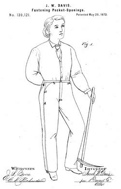 Copy of Figure from Patent granted to Jacob Davis and Levi Strauss